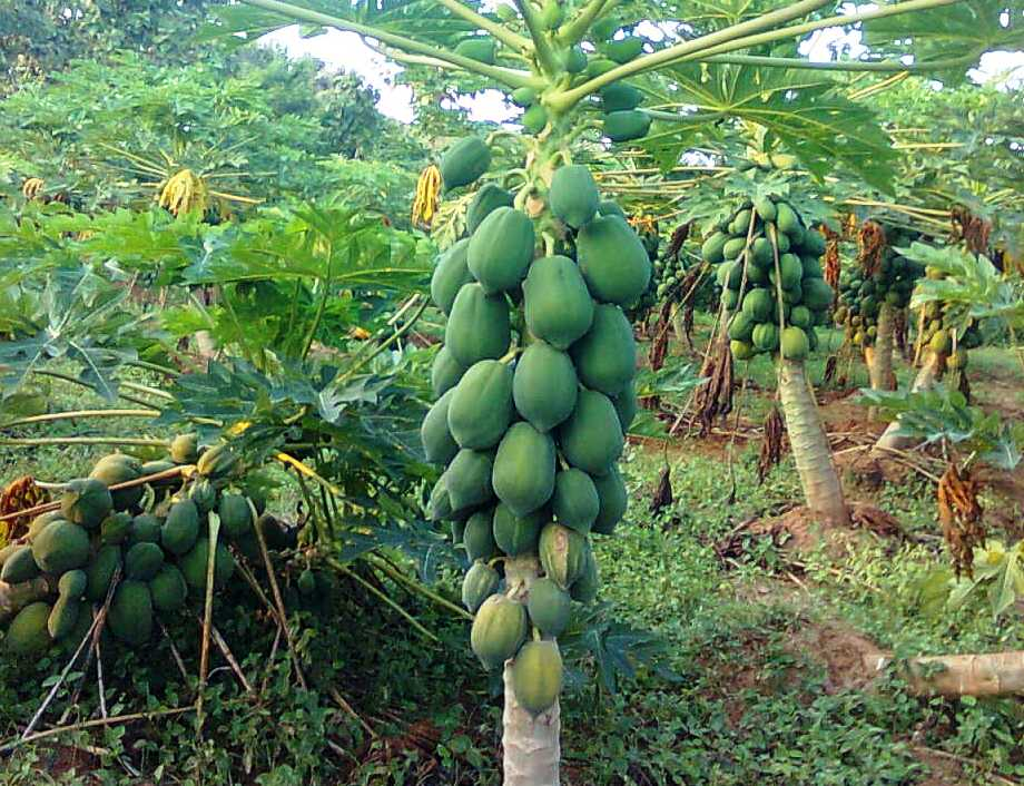 (carica papaya) immature fruits at a farm near Rajula Tallavalasa in Visakhapatnam district